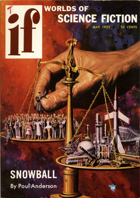 The cover of If, May 1955 issue. The cover is by Kenneth Fagg and is titled "Technocracy Versus the Humanities". Scanned from a copy. Since the magazine was published in the U.S. before 1964, the original copyright lasted 27 years from the end of the year of publication. The copyright holder was free to renew the copyright any time during the year 1978, but they did not do so. (All copyright renewals since 1977 are on file at the United States Copyright Office, and can be searched online.